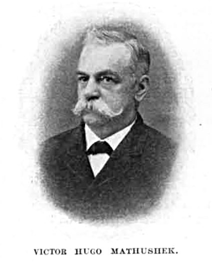 Portrait of piano manufacturer Victor Hugo Mathushek